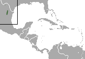 Carmen Mountain Shrew (Sorex milleri) range